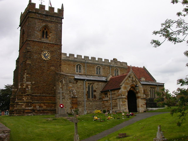 Parish church of St George the Martyr, Wootton, Northamptonshire, England, seen from the southwest